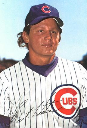 Professional baseball player Burt Hooton